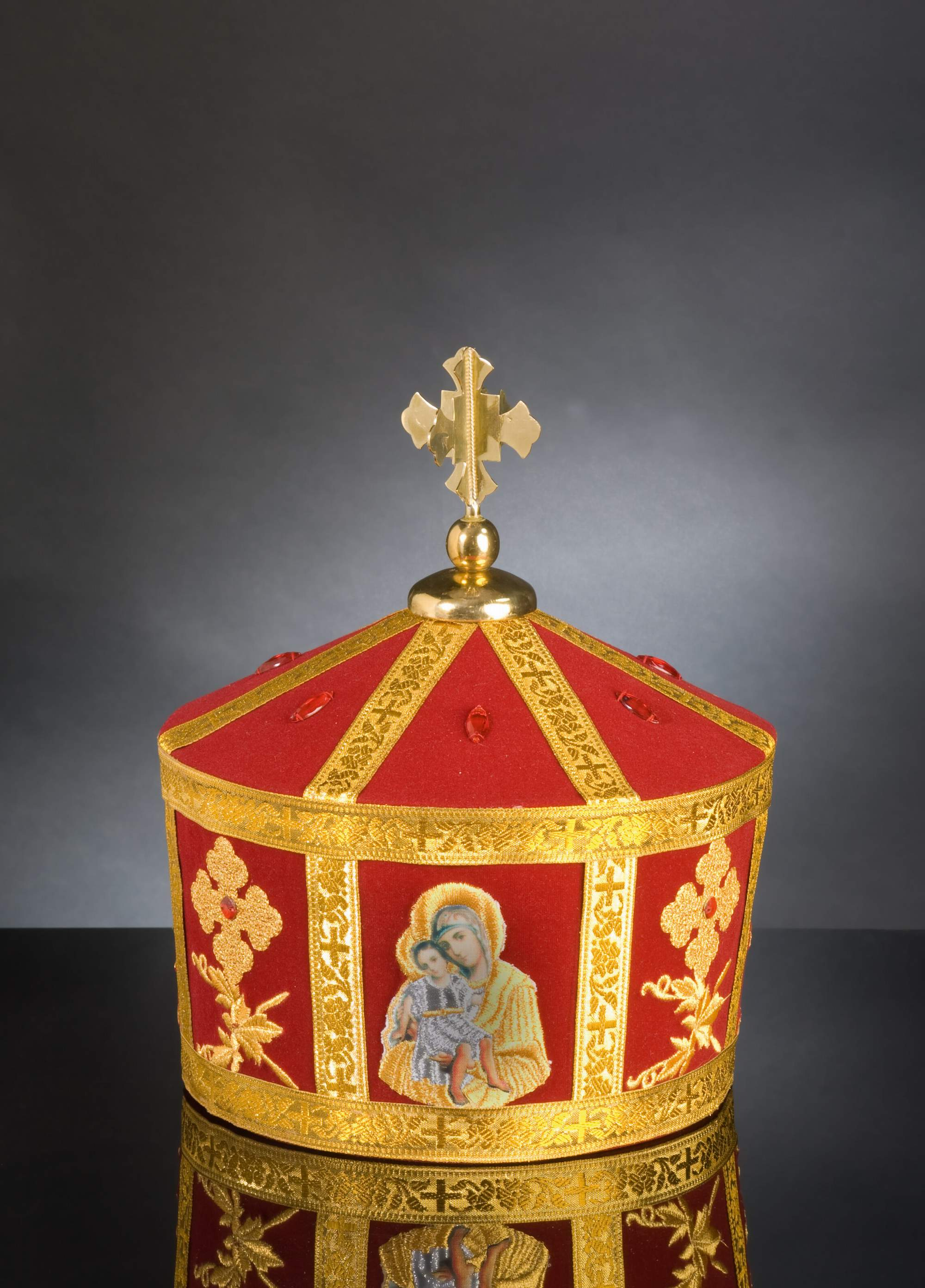 Sagharvart